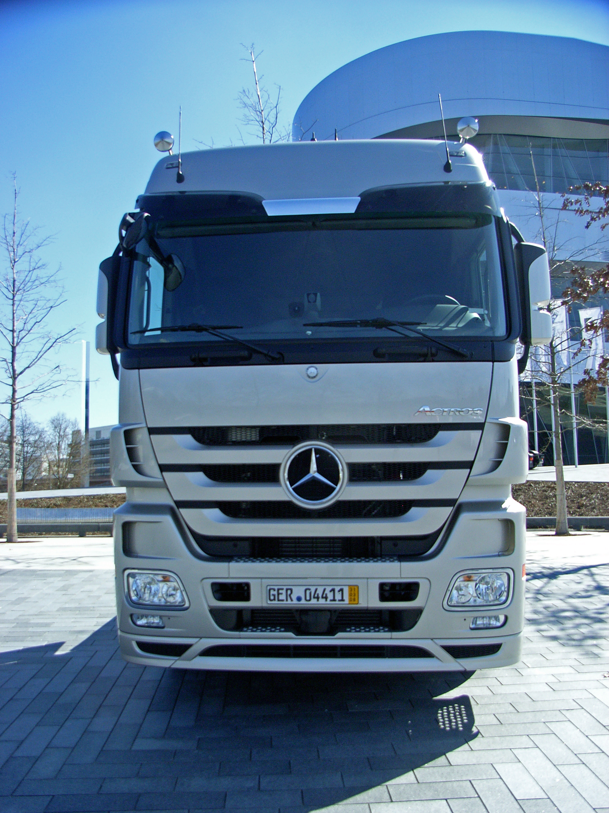 On this image you can see a Mercedes-Benz Actros 1848 with BlueTec 5 technology in front of the Mercedes-Benz-Museum in Stuttgart, Germany.